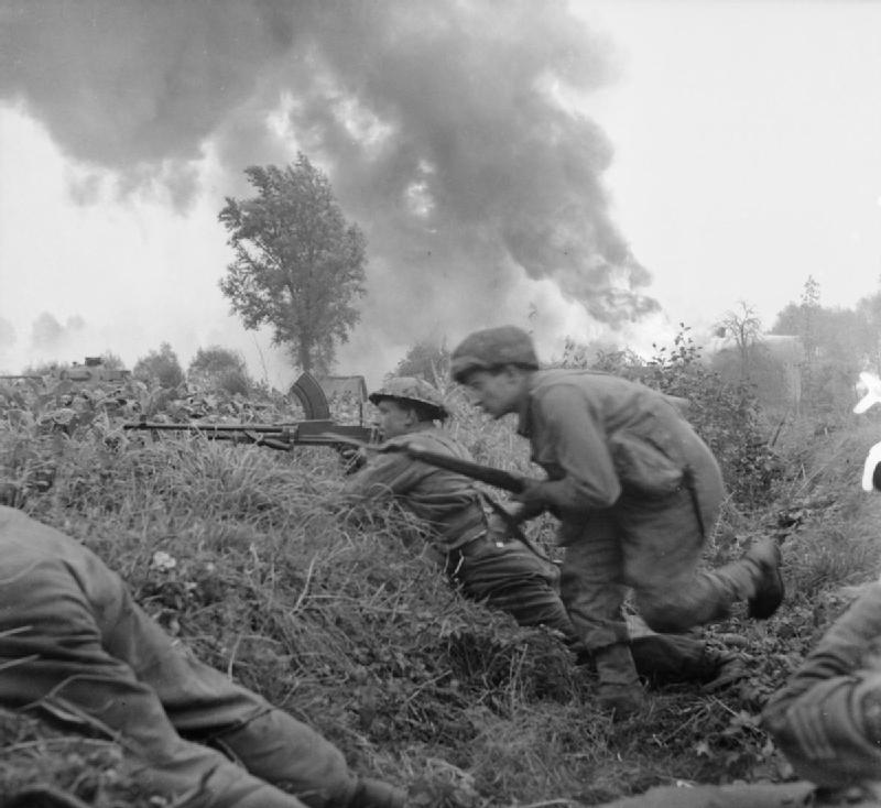 The British Army in North-west Europe 1944-45 Troops of 2nd Derbyshire Yeomanry, 51st Highland Division, take cover in a ditch during an attack on St Michielsgestel, 24 October 1944.